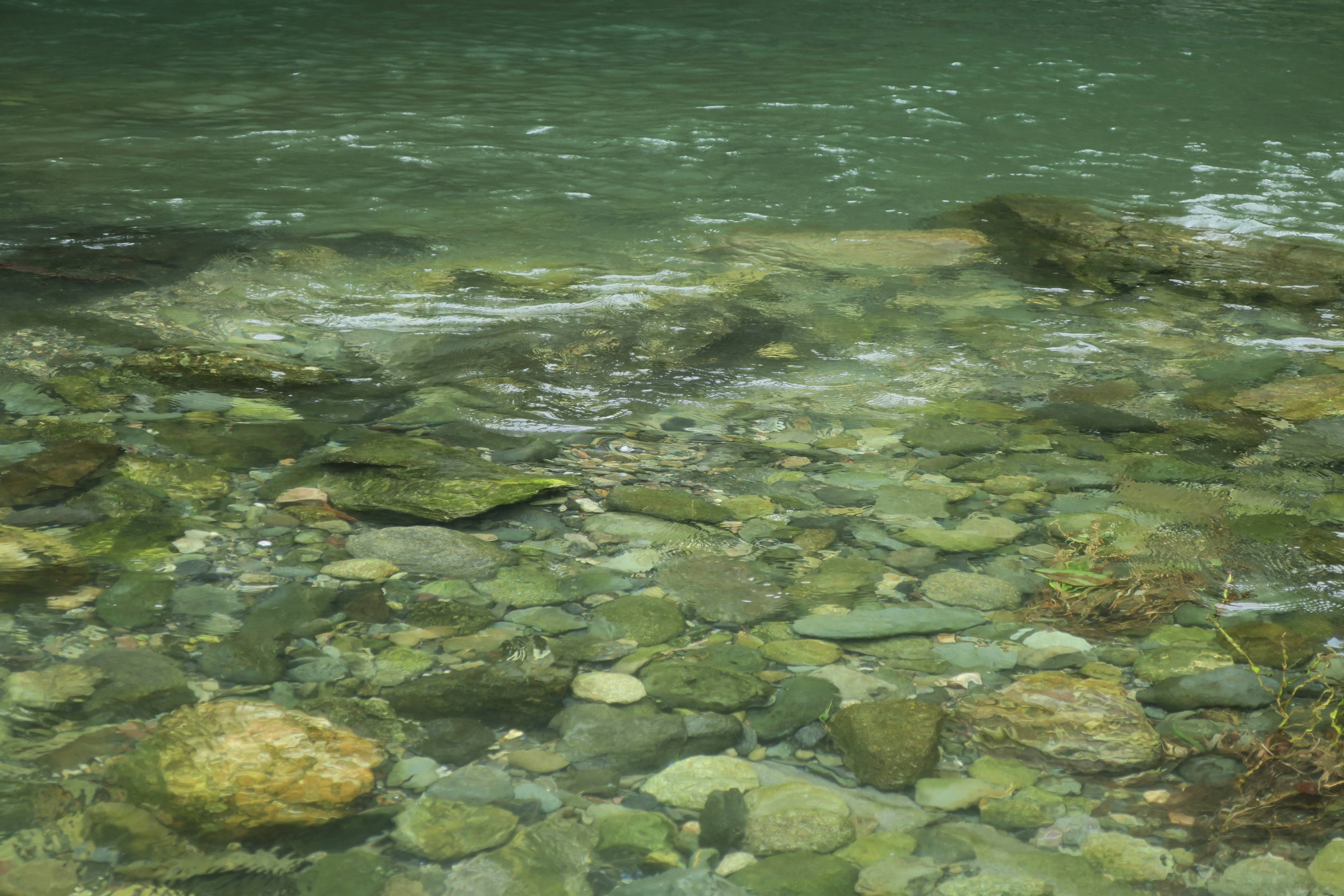 Ranzan Ravine (Ranzan, Saitama).